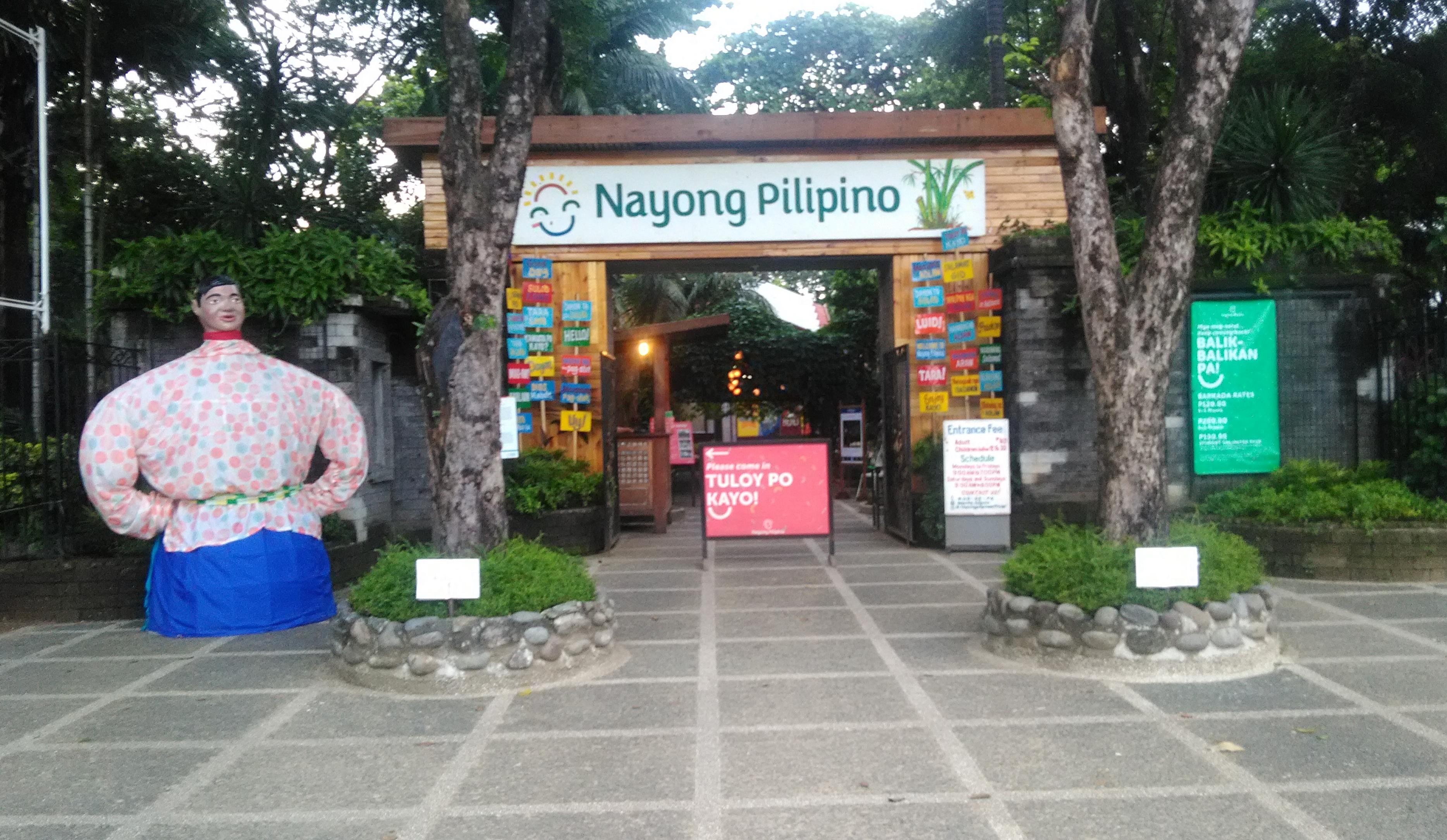 The Nayong Pilipino at Rizal Park, formerly named Orchidarium.